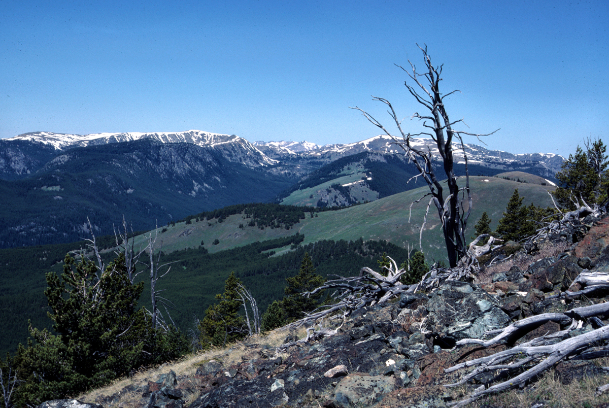 View from summit of Chopaka Mountain, Washington, looking northwest towards Long Draw and the Horseshoe Basin area, straddling the US and Canadian border.